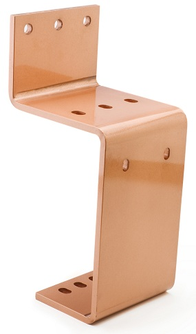 This is how a workpiece with standard bends produced at CNC machines looks like. Holes and bends were programmed together at the bending machine.